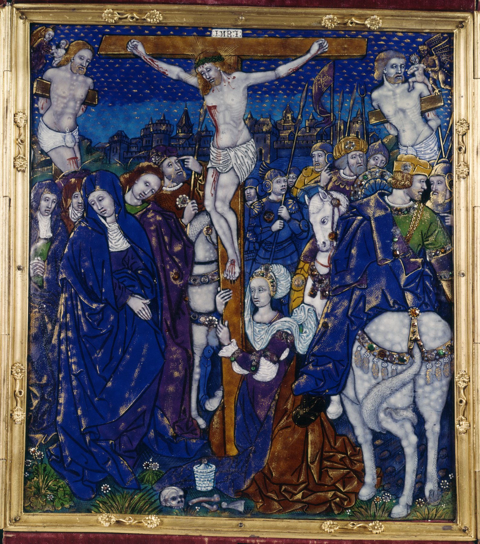 The brilliant, jewel-like surfaces of this small folding triptych (three panels hinged together) are characteristic of painting in enamel on copper which was a specialty of Limoges. The vibrancy and surface richness possible with this technique made it attractive for decorating personal objects. They had to be fairly small because of the relatively small sheets of copper then available. Pénicaud was a great enamelist and the founder of a successful workshop carried on by his heirs. Like many contemporary enamelists, however, he did not compose the religious images he executed. This scene is based on a woodcut published in Paris in 1505. The French woodcut was, in turn, derived from a German engraving. Originality was not as important then as it is today; what mattered most was the quality of the product. This exquisite triptych was clearly held in high esteem as it was the model for several others.